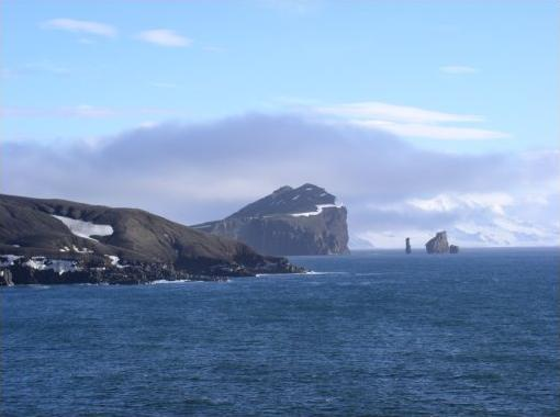 Entrance to Deception Island with the "Sewing-machine Needles". Livingston Island is seen behind and to the right.